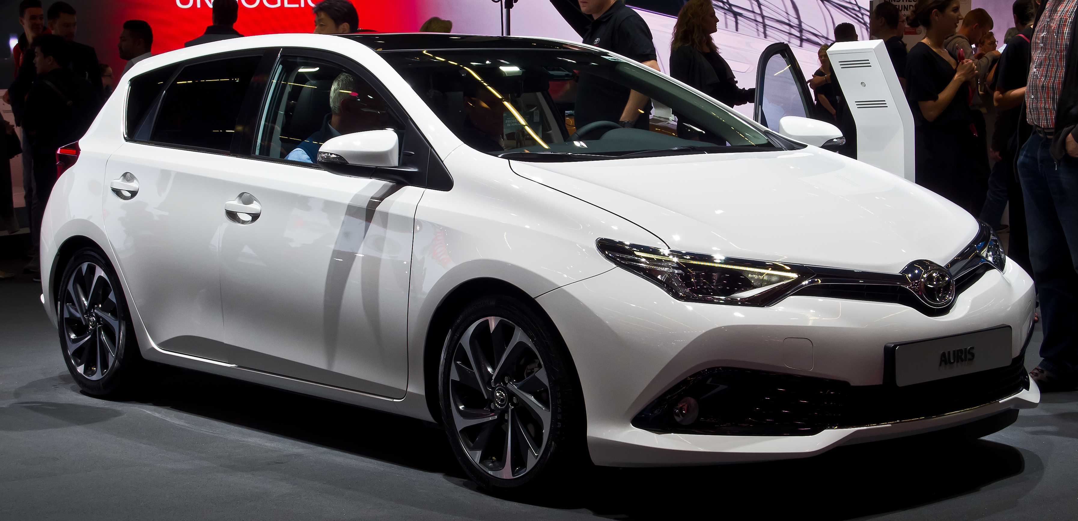 Toyota Auris 1.2 Turbo Design Edition (II, Facelift)